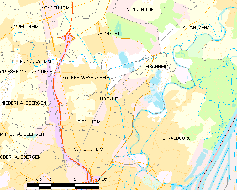 Map of French municipality